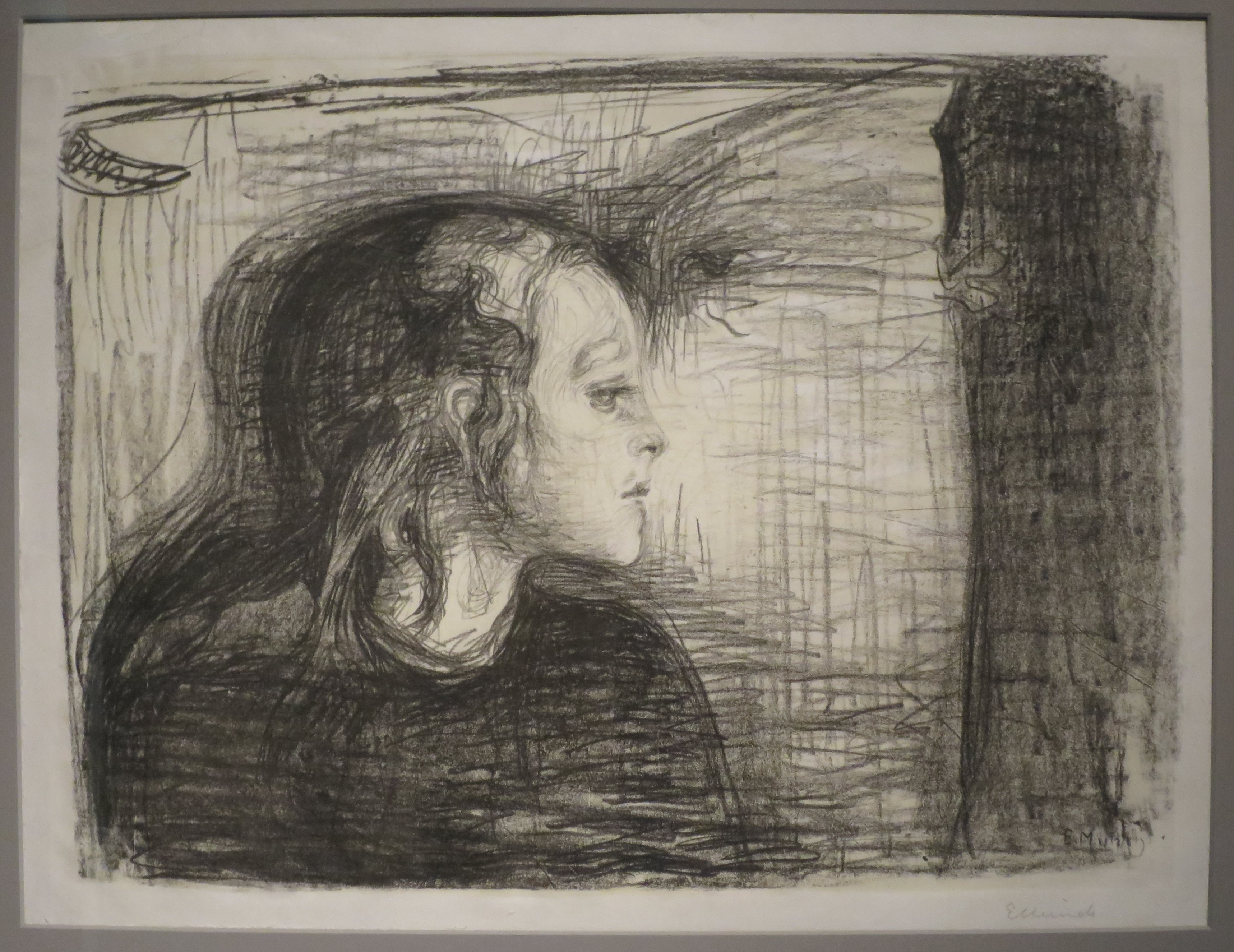 The Sick Child I by Edvard Munch, 1896, lithograph, Bergen Kunstmuseum